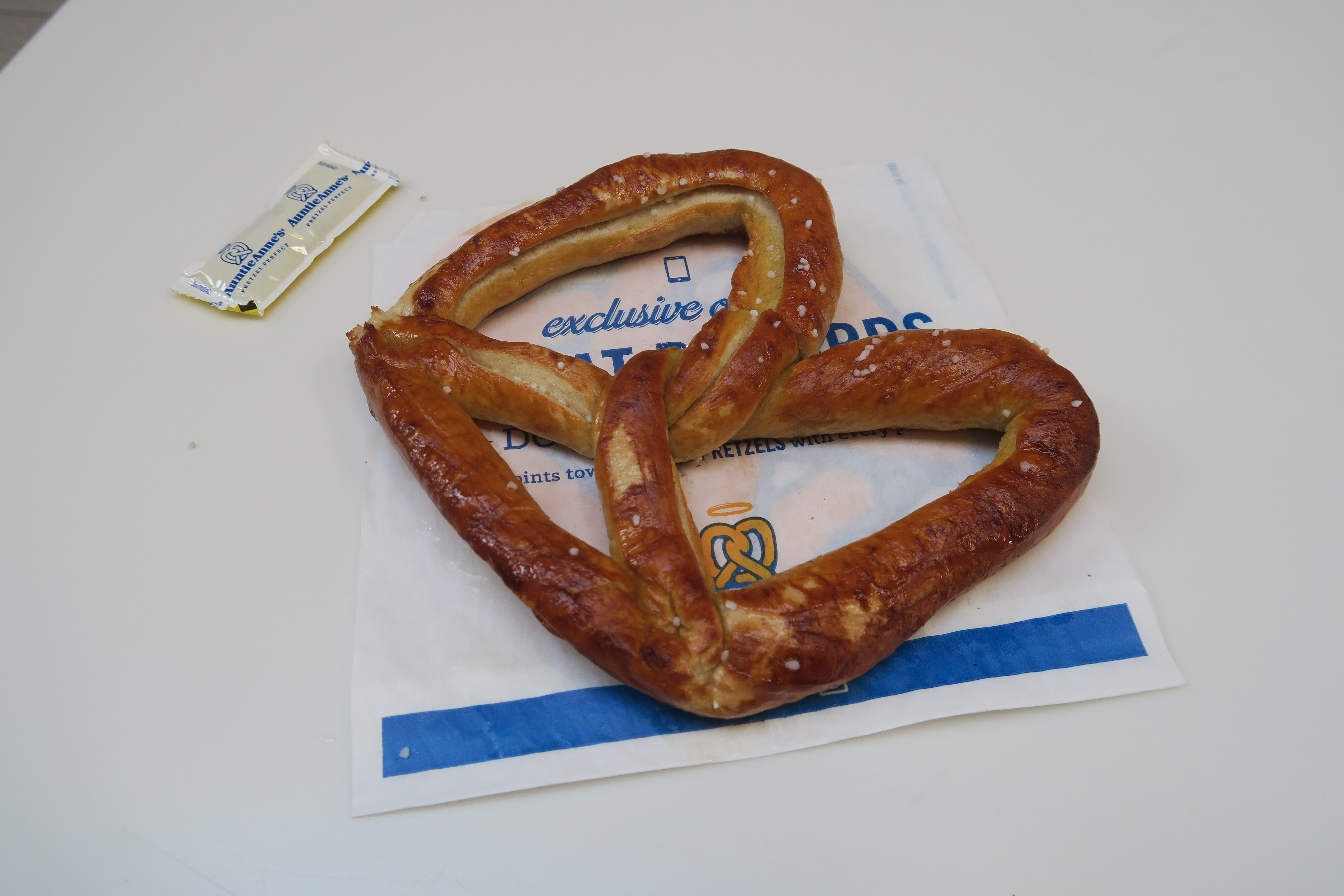 Pretzel, Auntie Annes, Kingston Massachusetts